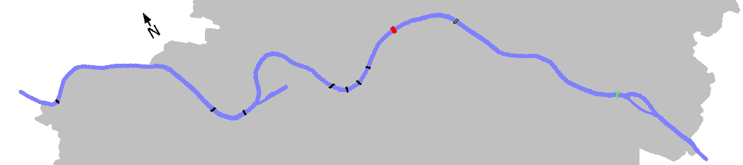 The Waldschlösschenbrücke among the Dresden elbe street crossings; Green and Black: The Blue Wunder is limited to 3.5t of weight; Green: Car-ferry in Pillnitz